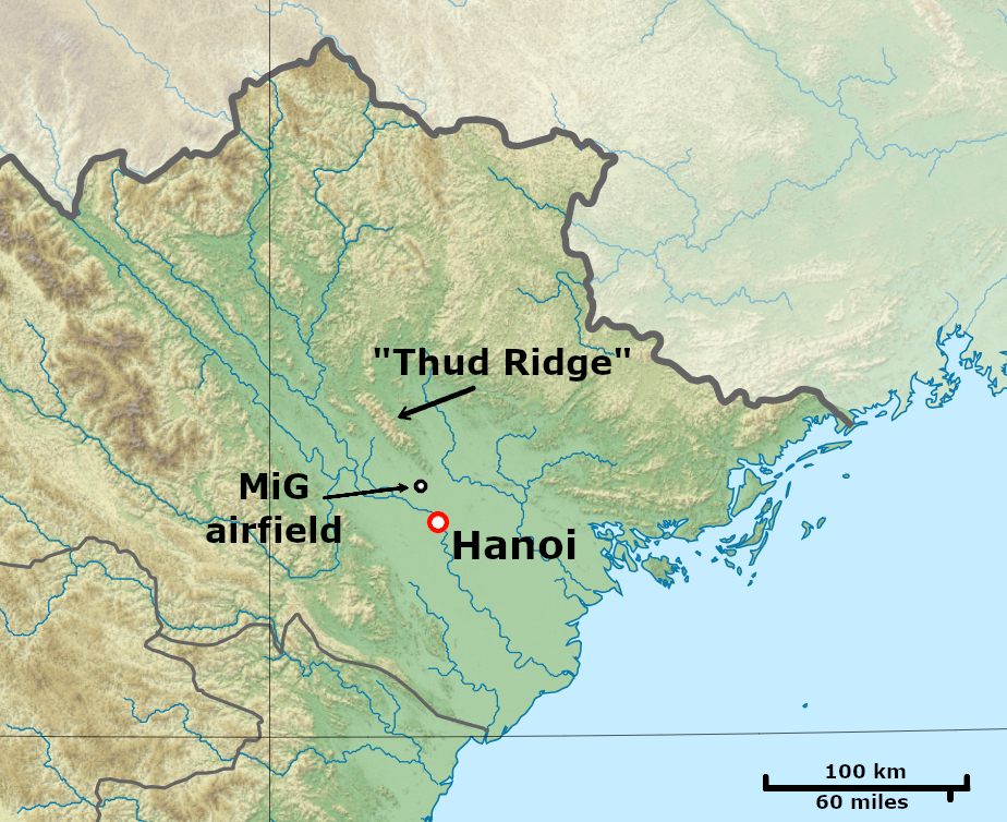 Location of the Thud Ridge made famous by the F-105 Thunderchief crews during the Vietnam War